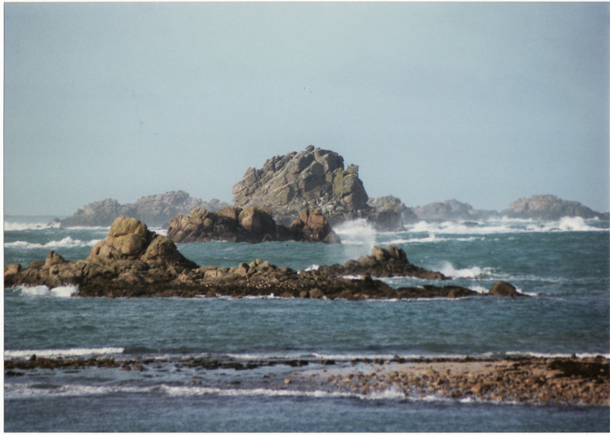 Rough Seas and Jagged Rocks, Hell Bay, Bryher, Isles of Scilly 1996